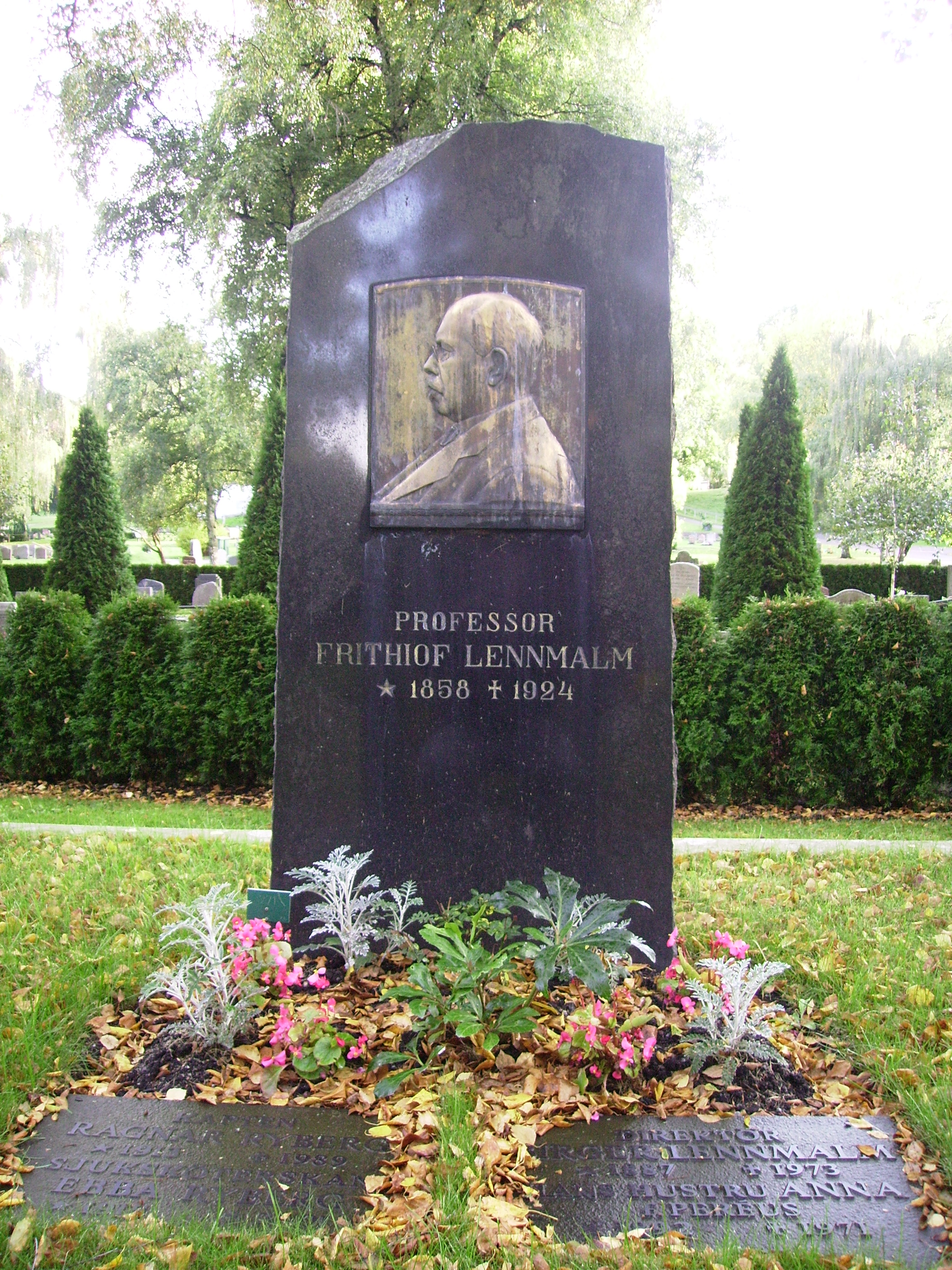 Picture of Frithiof Lennmalm's grave at Solna kyrkogård